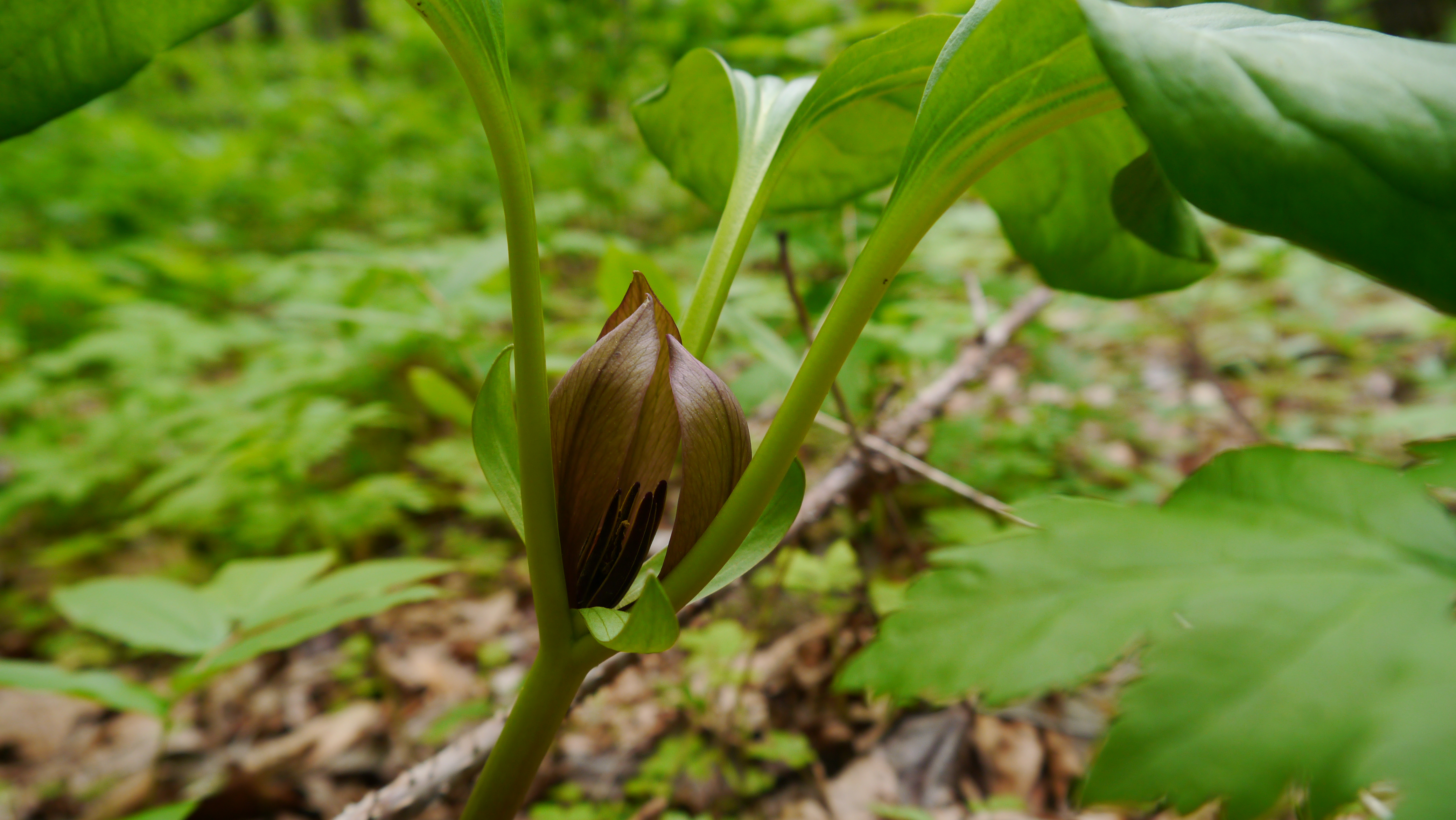 Trillium petiolatum- purple trillium in bloom in a shady grove of Acer macrophyllum, eastern Washington